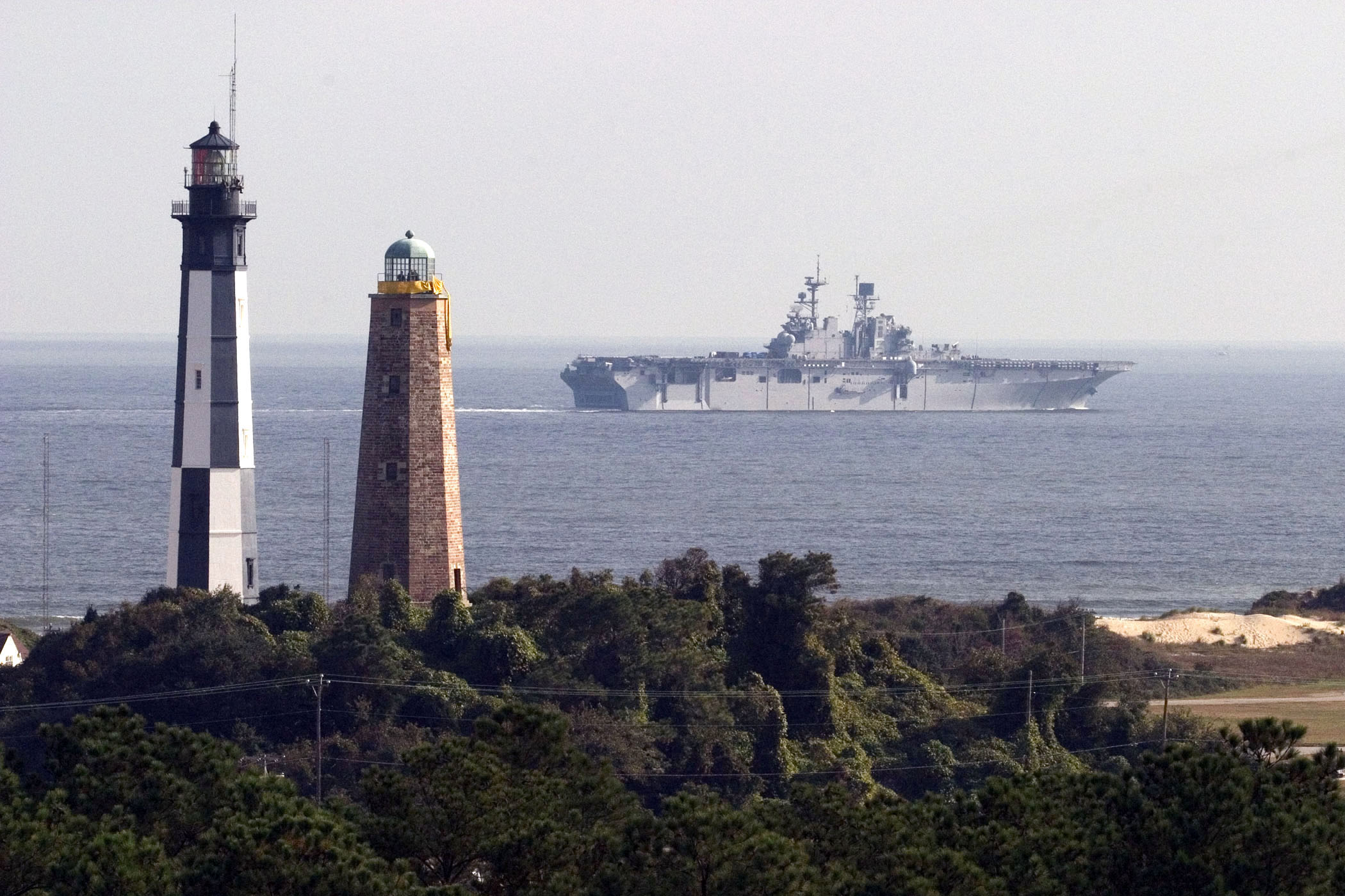 Atlantic Ocean (Oct. 28, 2004) — The amphibious assault ship USS Bataan (LHD-5) passes the Fort Story Lighthouse on her way to the Atlantic Ocean for sea trials. This is the crew's first underway period after completing an extensive six-month availability at Norfolk Shipbuilding and Drydock Corporation.